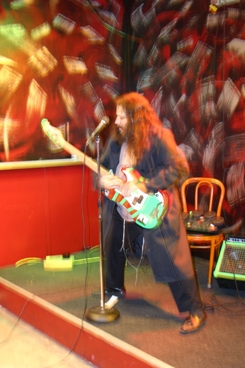 STEVE LIEBERMAN Performs a bass solo in Detroit 9 18 2004